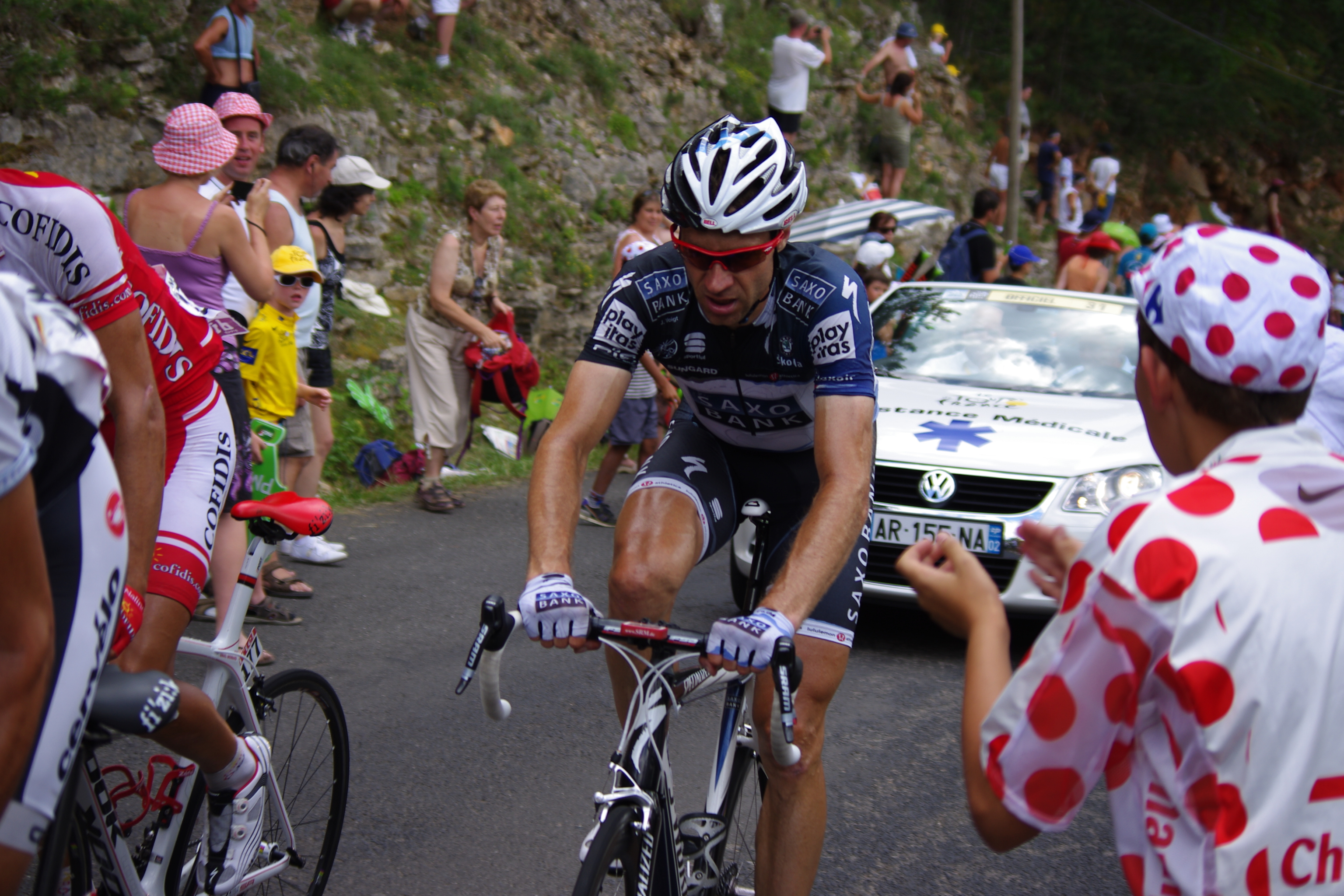 Taken on the final climb of the stage to Mende (48), Tour de France 2010. To reach the finish line near the airport, the riders had to wind up the narrow and steep by-road D25.